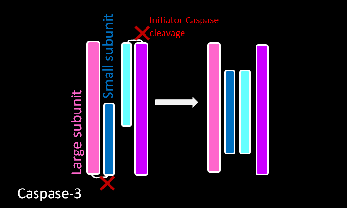 Caspase 3 activation